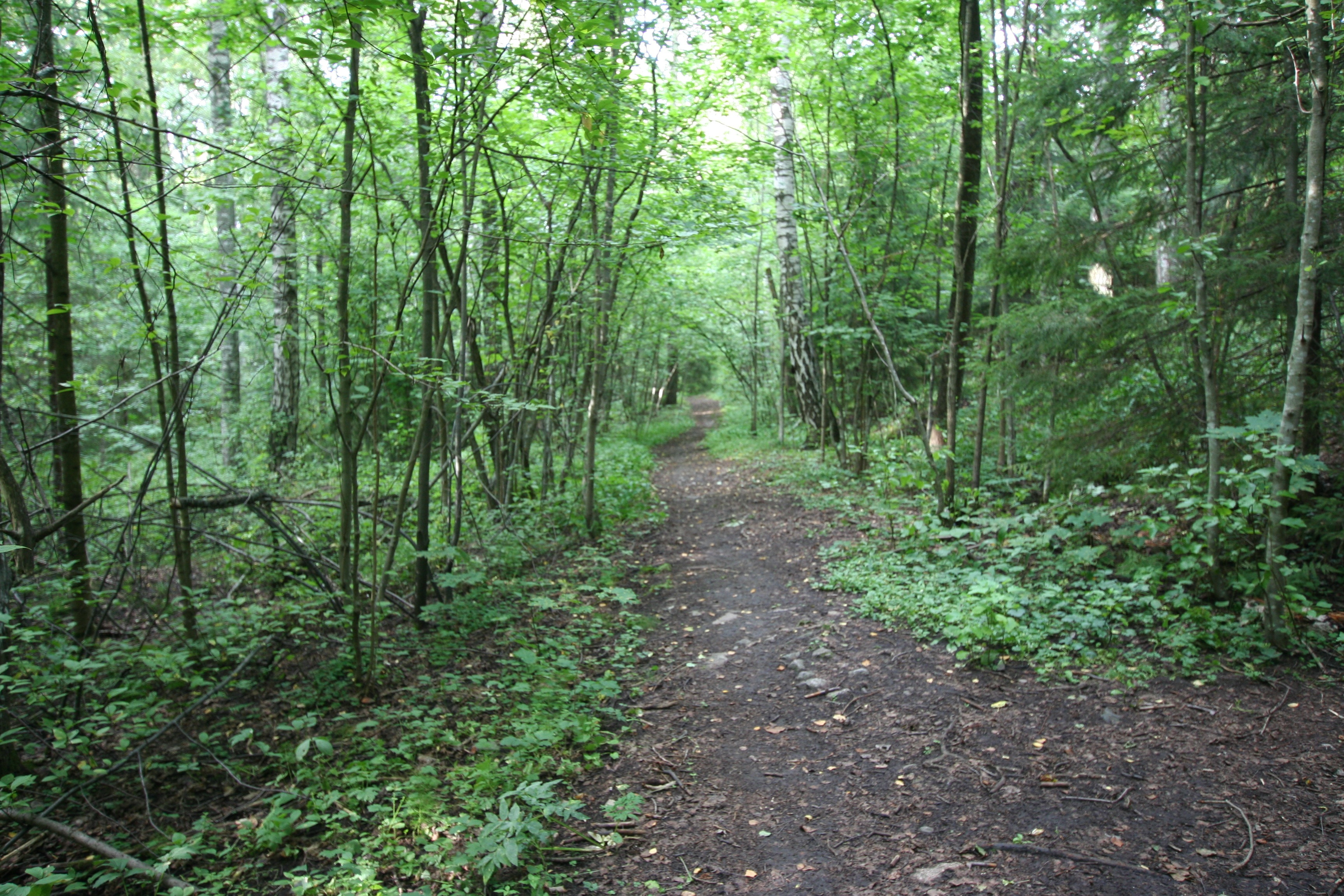 Mustavuori natura area FI0100065